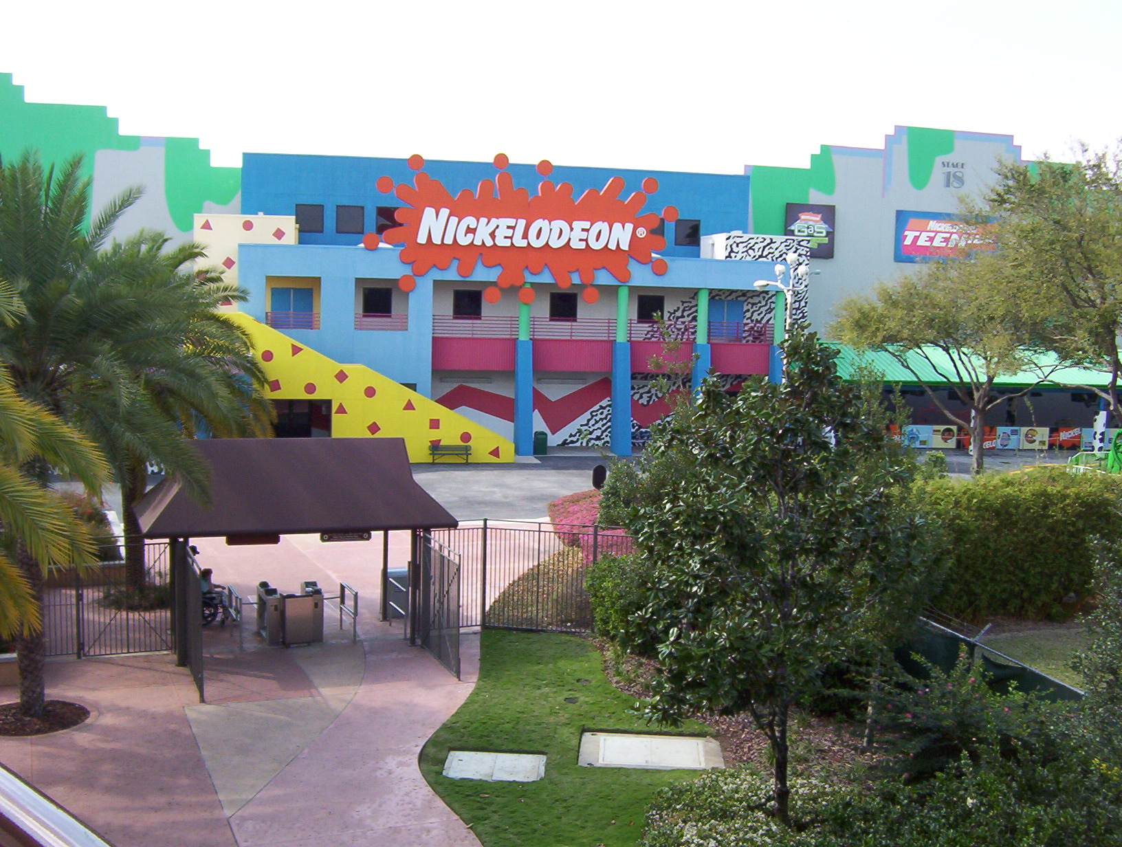 Nickelodeon Studios from the Hard Rock Cafe. Photo taken by Michael Rajchel in March 2004.